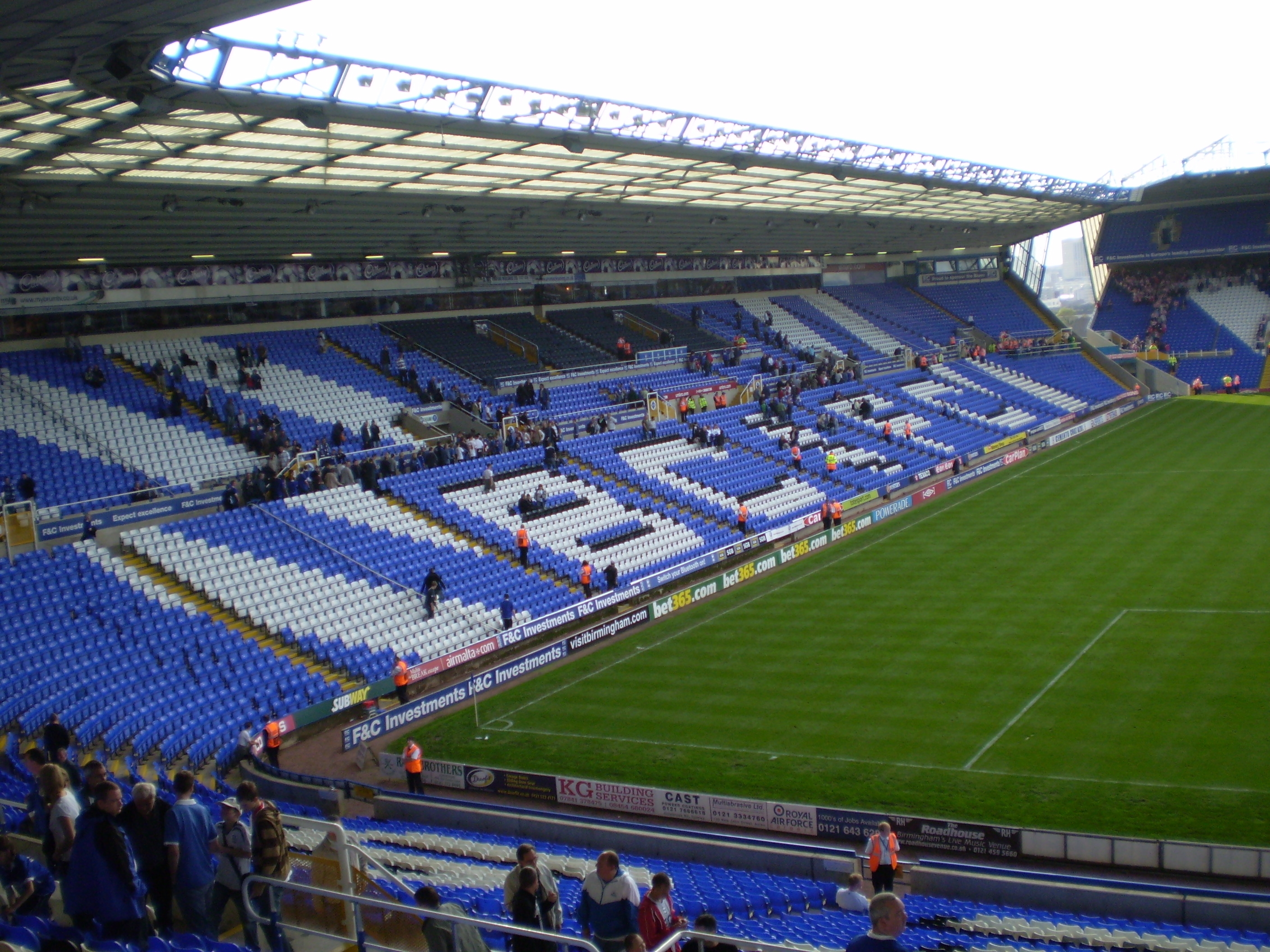 The Main Stand of Birmingham City F.C.'s St Andrew's Stadium in September 2008